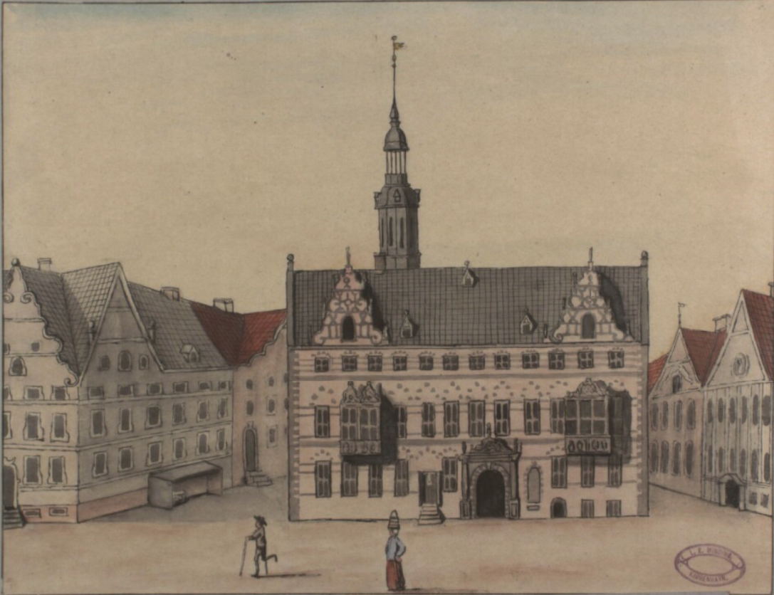 Steenbocks Gård, formerly Marsvins Gård, in Copenhagen, Denmark